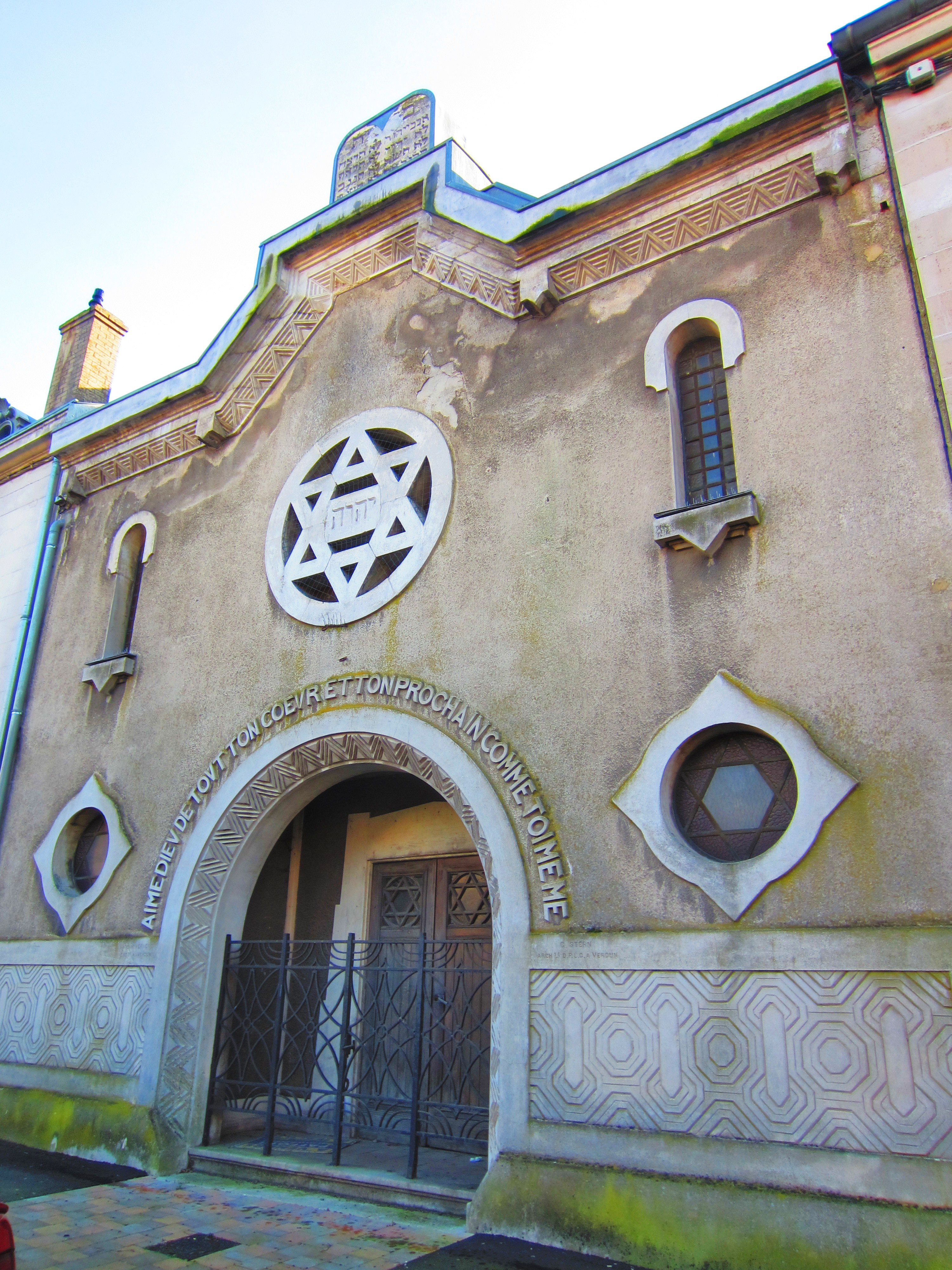 Synagogue Etain